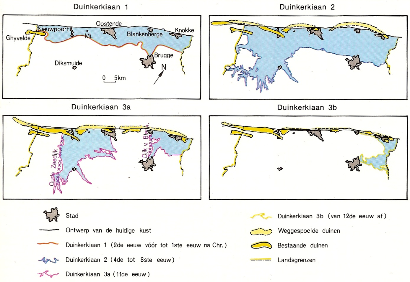 Maps illustrating 3 transgressions of the Belgian coast.